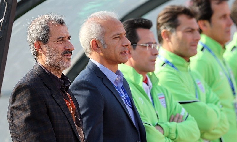 Iran Olympic team coaching staff before match wtih Palestine U23 team in Azadi Stadium